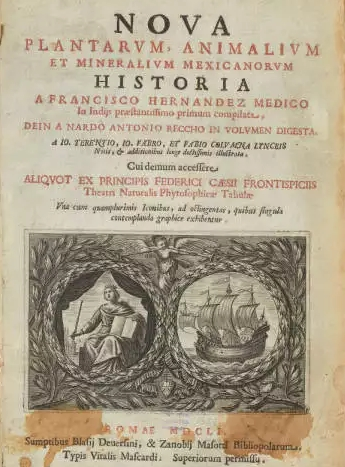 Hernandez Nova historia (Rome, 1651) tp